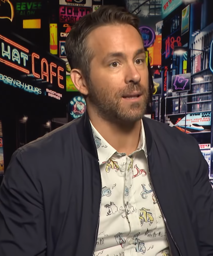 Star of Detective Pikachu, Ryan Reynolds, talks about working on the project and reveals who would win in a fight between Deadpool and Pikachu.